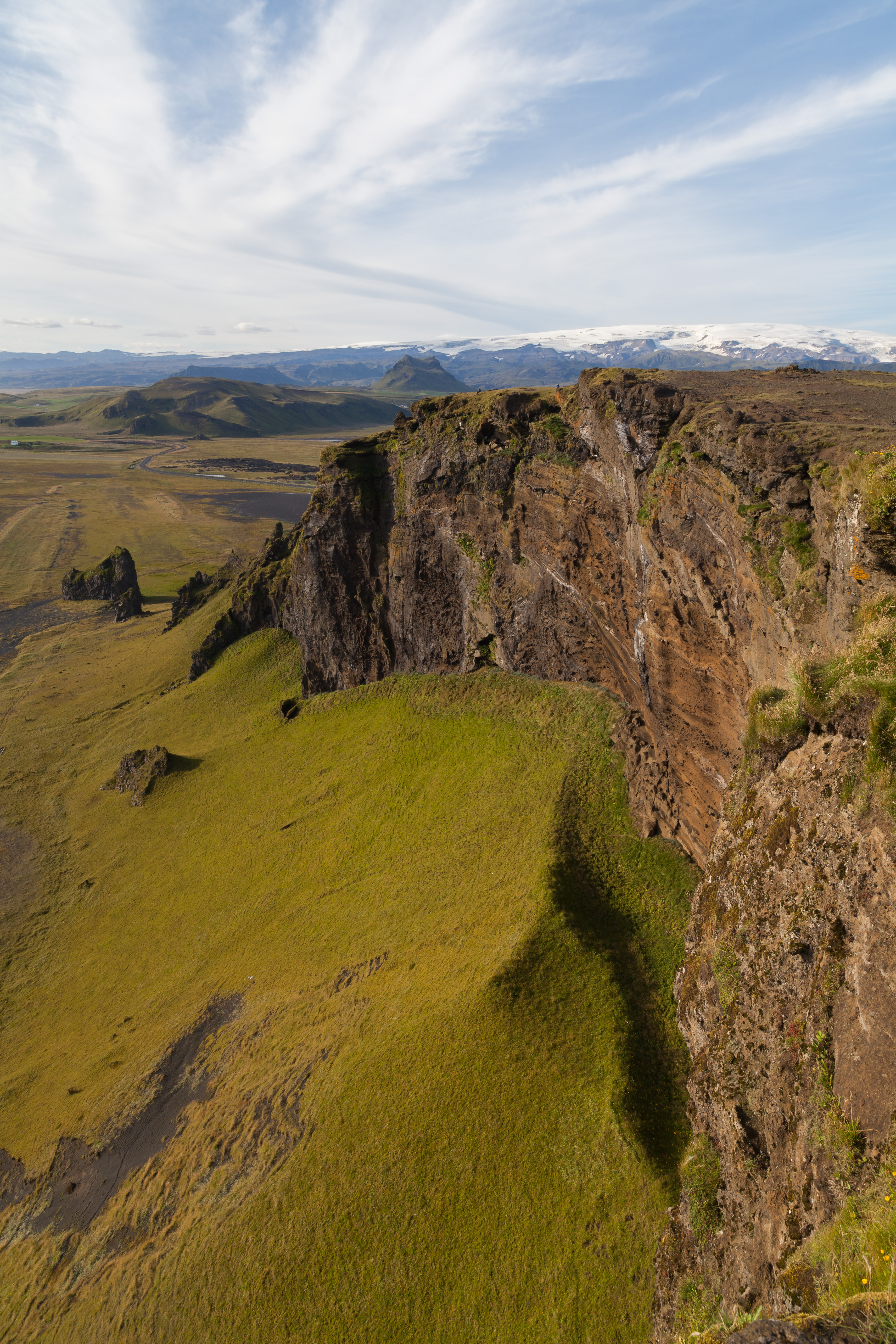 Dyrhólaey, Suðurland, Iceland